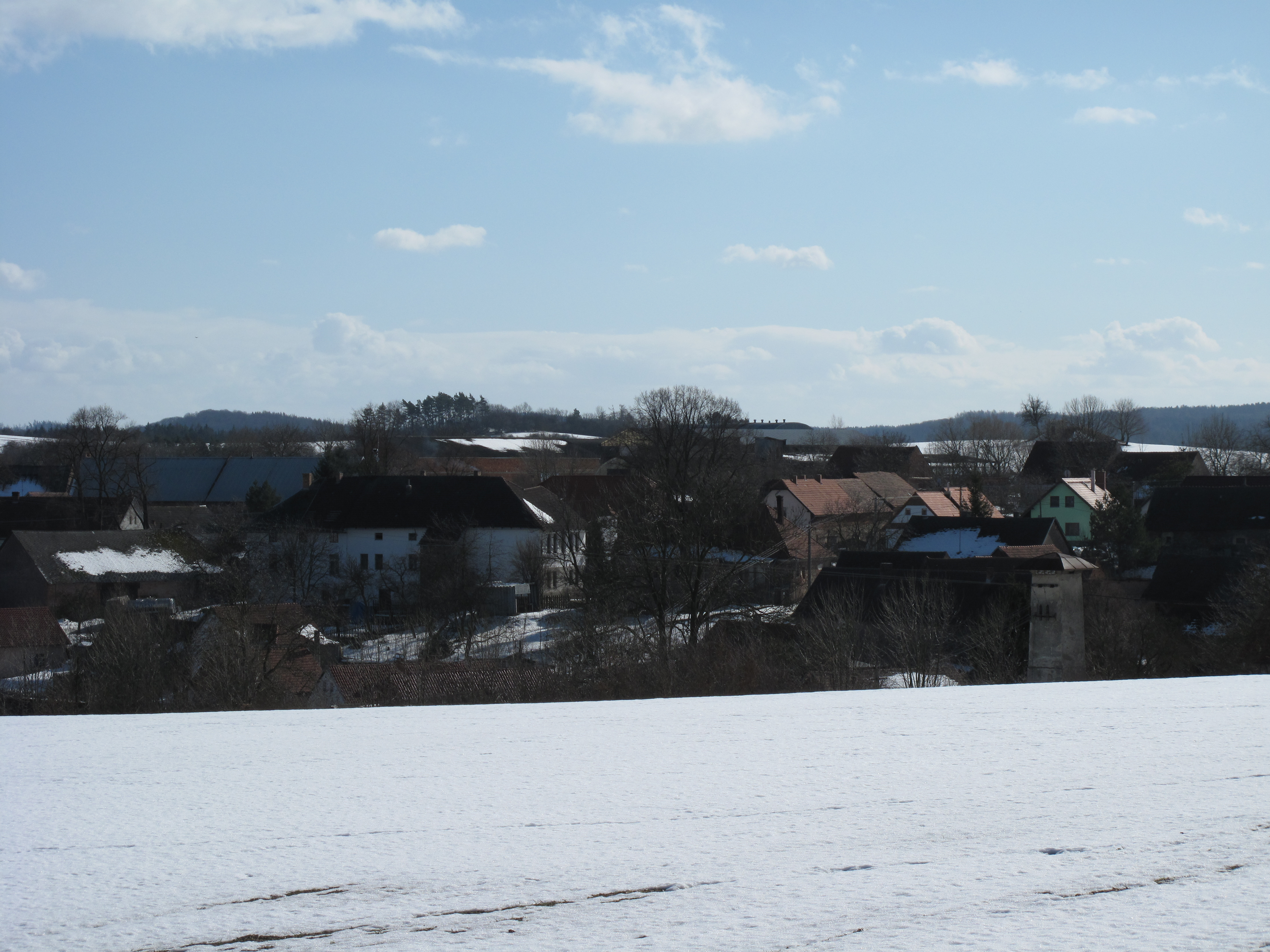 View at the Hradové Střimelice village (Stříbrná Skalice municipality) from the road heading to Kostelní Střimelice village (Stříbrná Skalice municipality), Prague-East District, Czech Republic. This photograph was taken within the scope of the 'Czech Municipalities Photographs' grant.